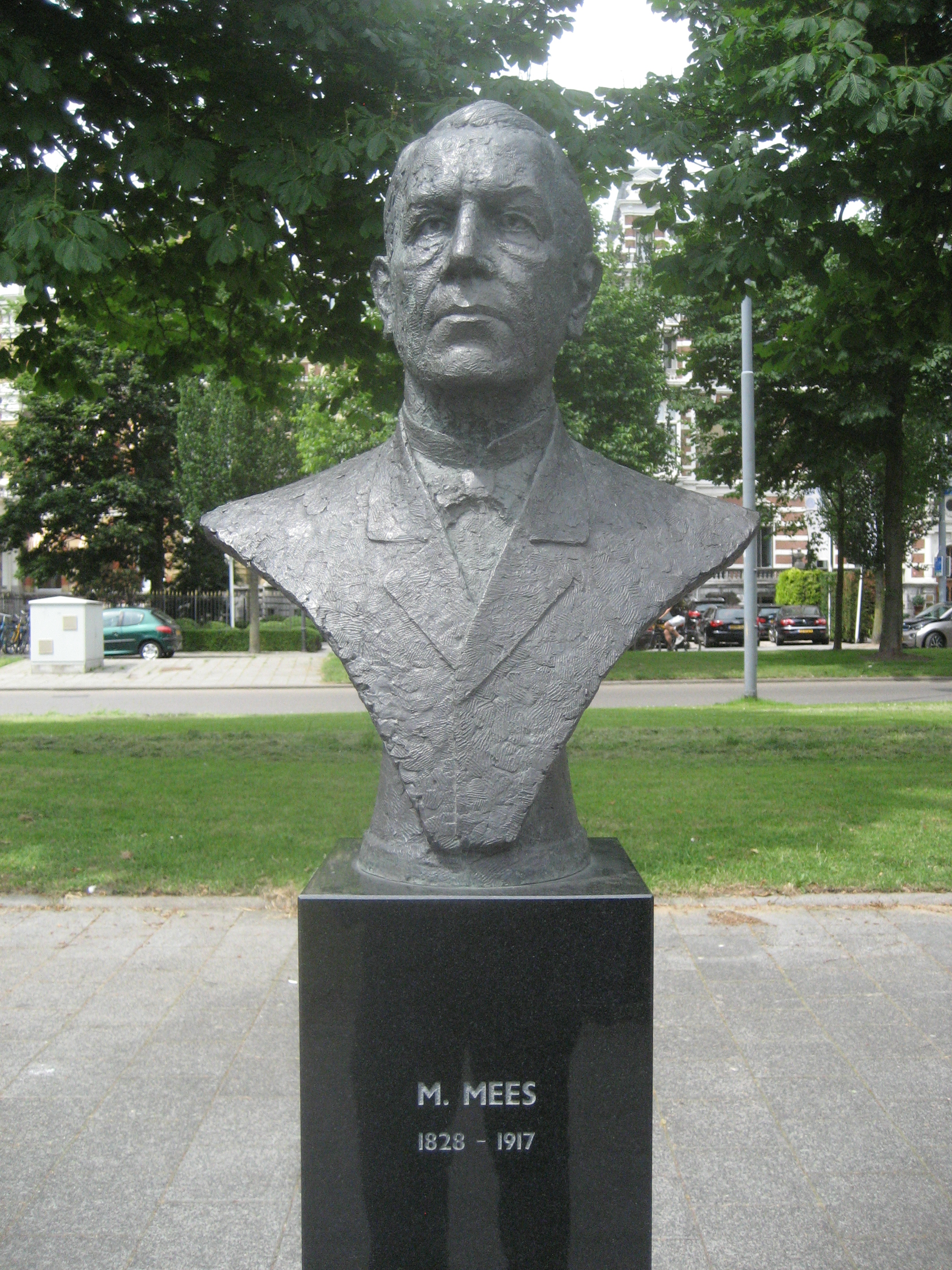 Bust of Marten Mees (1828-1917) at Westplein, Rotterdam. Sculptor: Robbert Donker (2013)